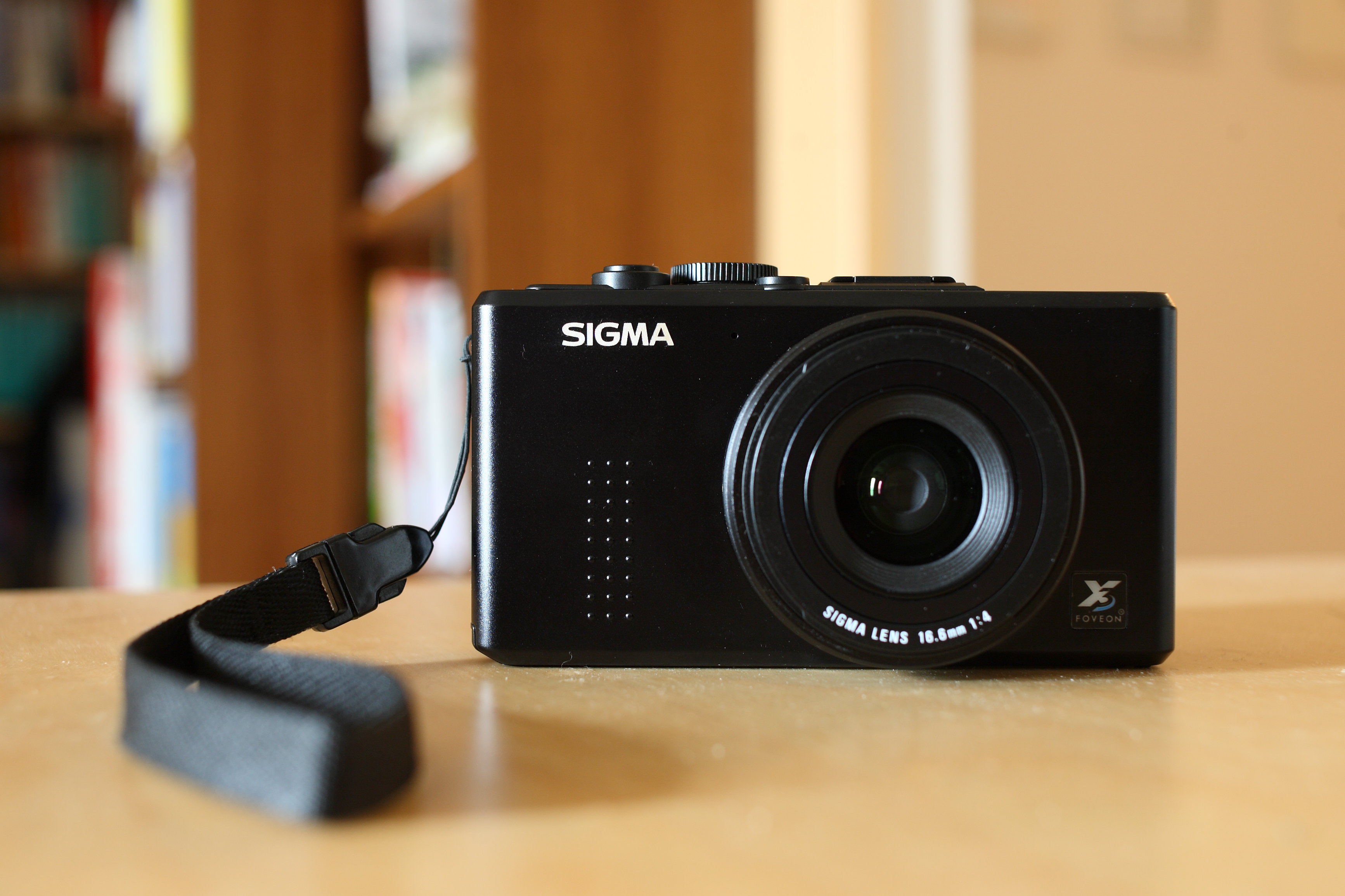 Sigma DP1 with strap.